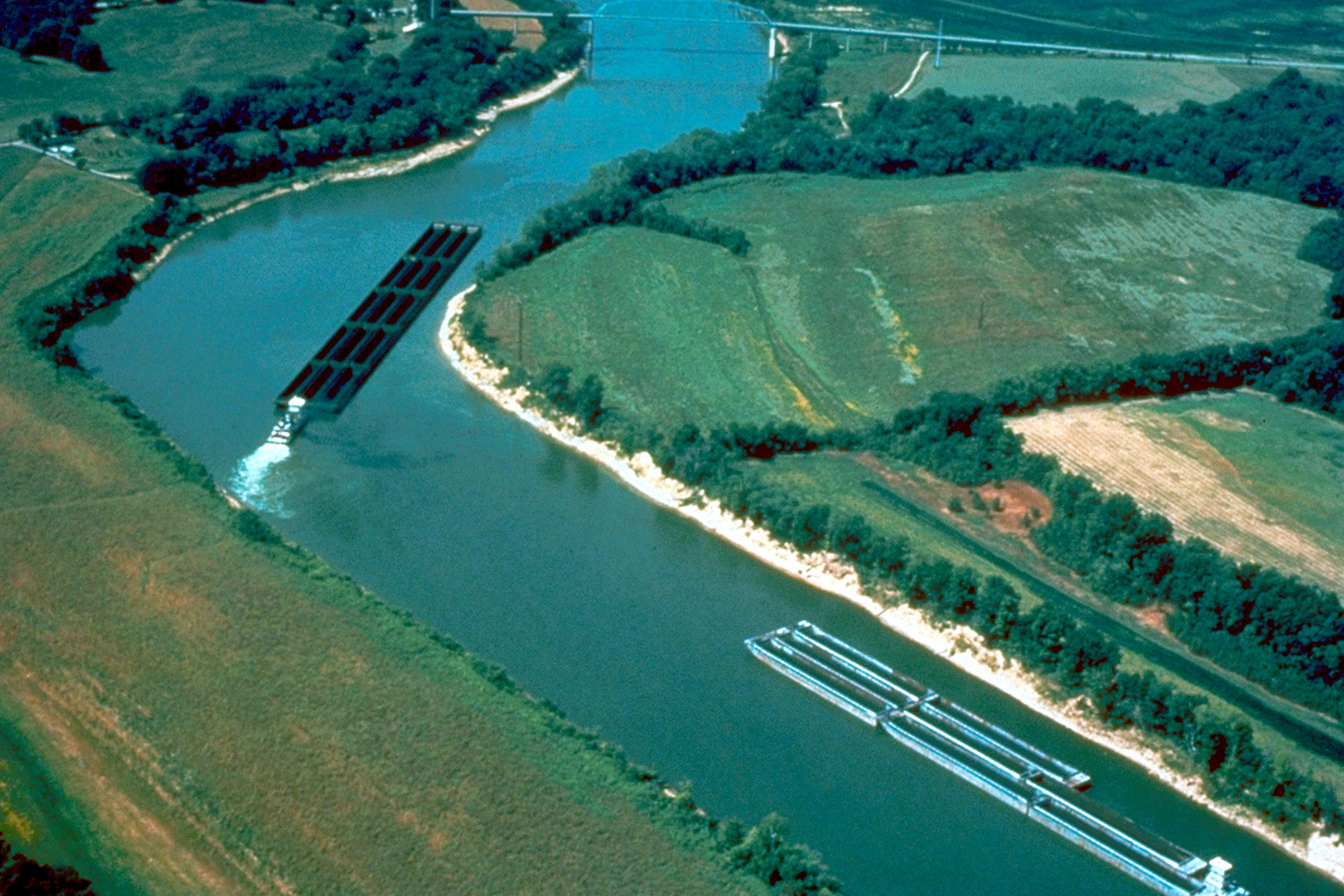 Barge traffic on the Cumberland River at Smithland in Livingston County, Kentucky , USA. The U.S. Army Corps of Engineers maintains the river for tug-and-barge navigation.